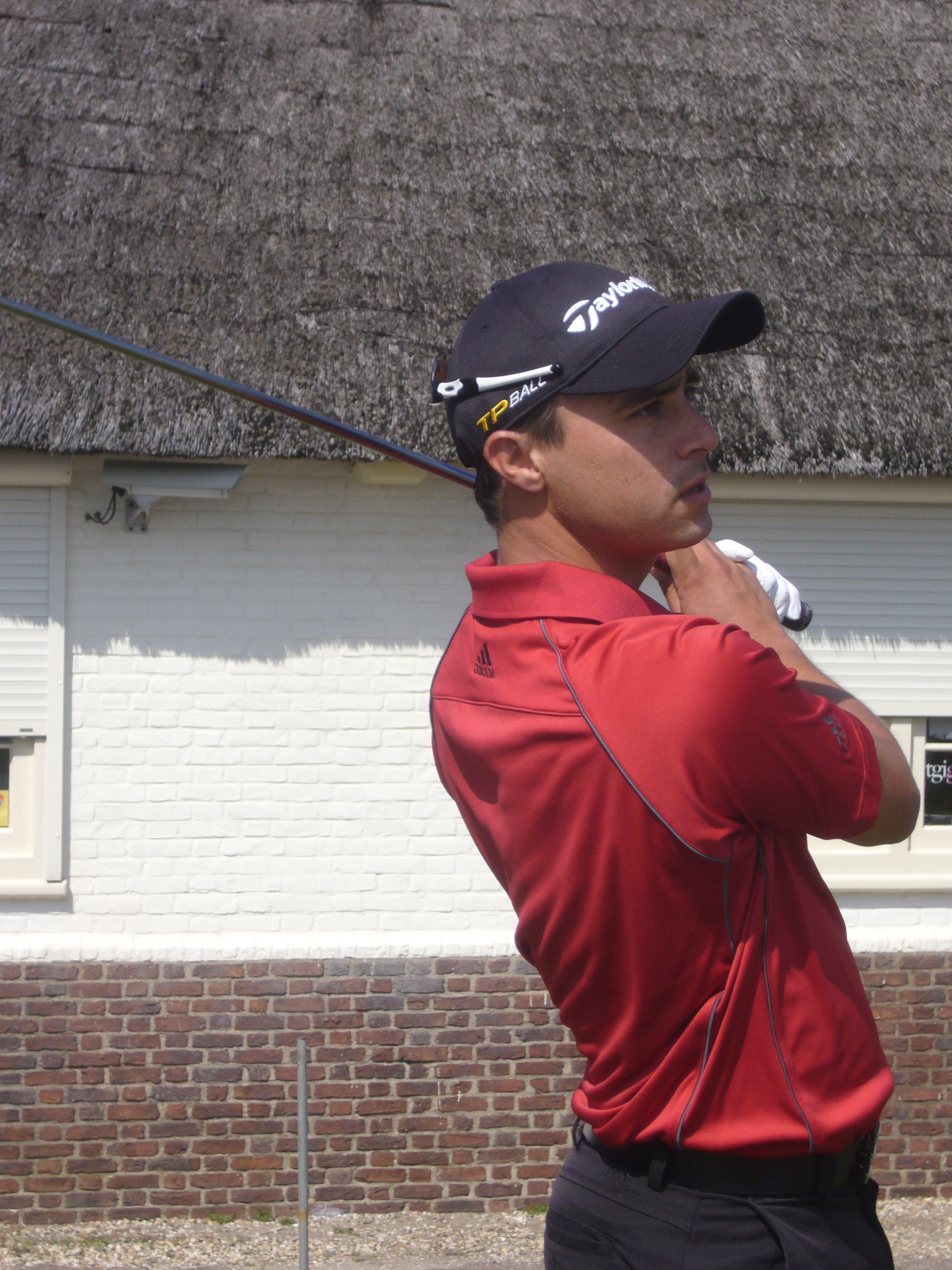 Rafa Echenique, professional golfer, at KLM Open in Holland